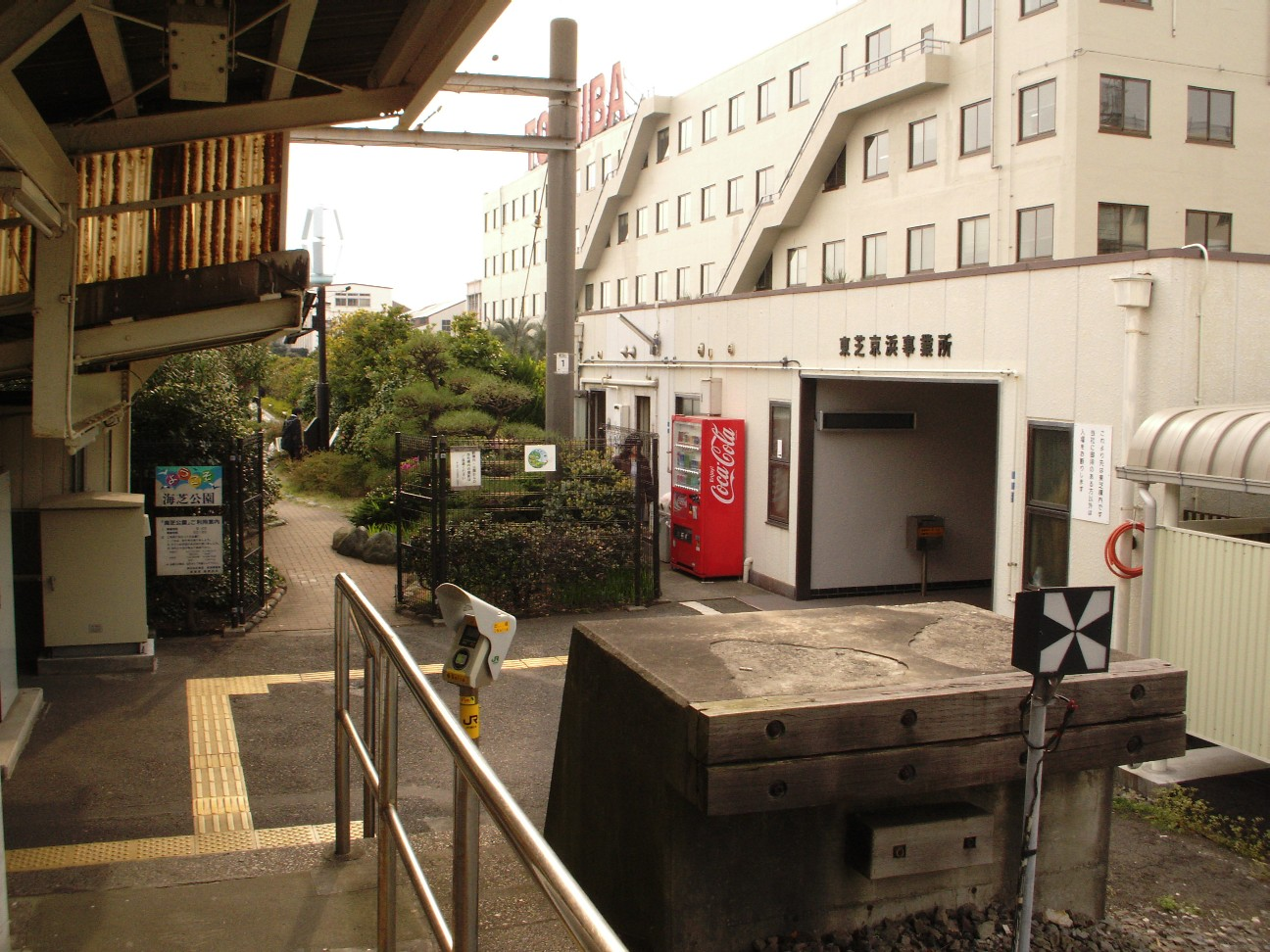 A small park (constructed by Toshiba), seen from the platform of Umi-Shibaura Station, Tsurumi Line